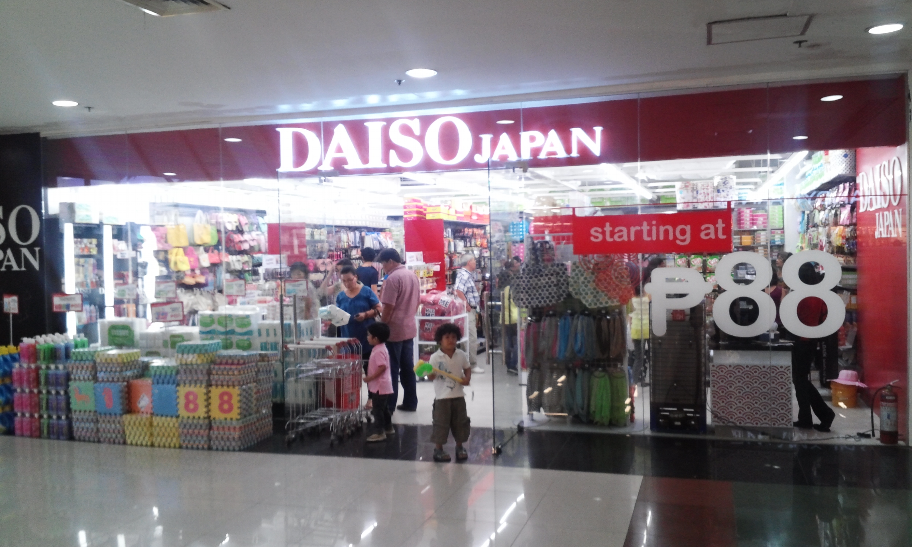 Daiso located in Robbinson's mall, Bacolod, The Philippines.